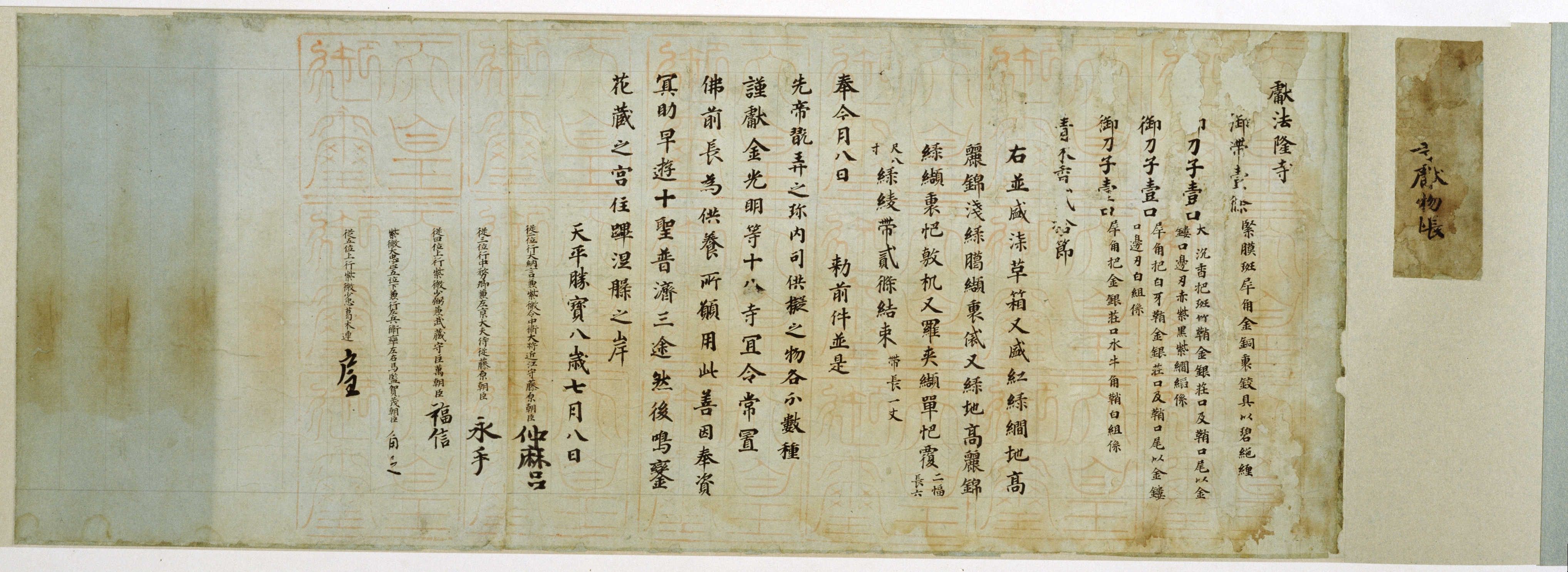 Record of the objects bequeathed to the Hōryū-ji temple by Empress Kōken on occasion of the death of Emperor Shōmu.